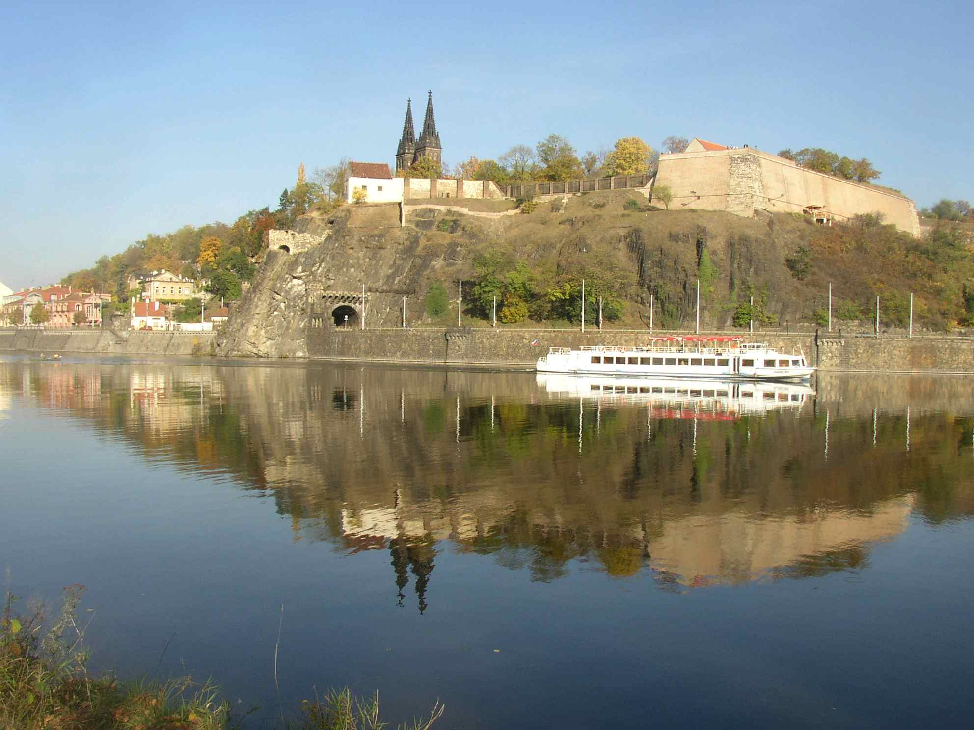 Vyšehrad Castle in Prague, Czech Republic as seen over the Vltava River from the Císařská louka Island (the island is accessible from Lihovar tram or bus stop) Photo taken by Miaow Miaow in October 2005, PD-self